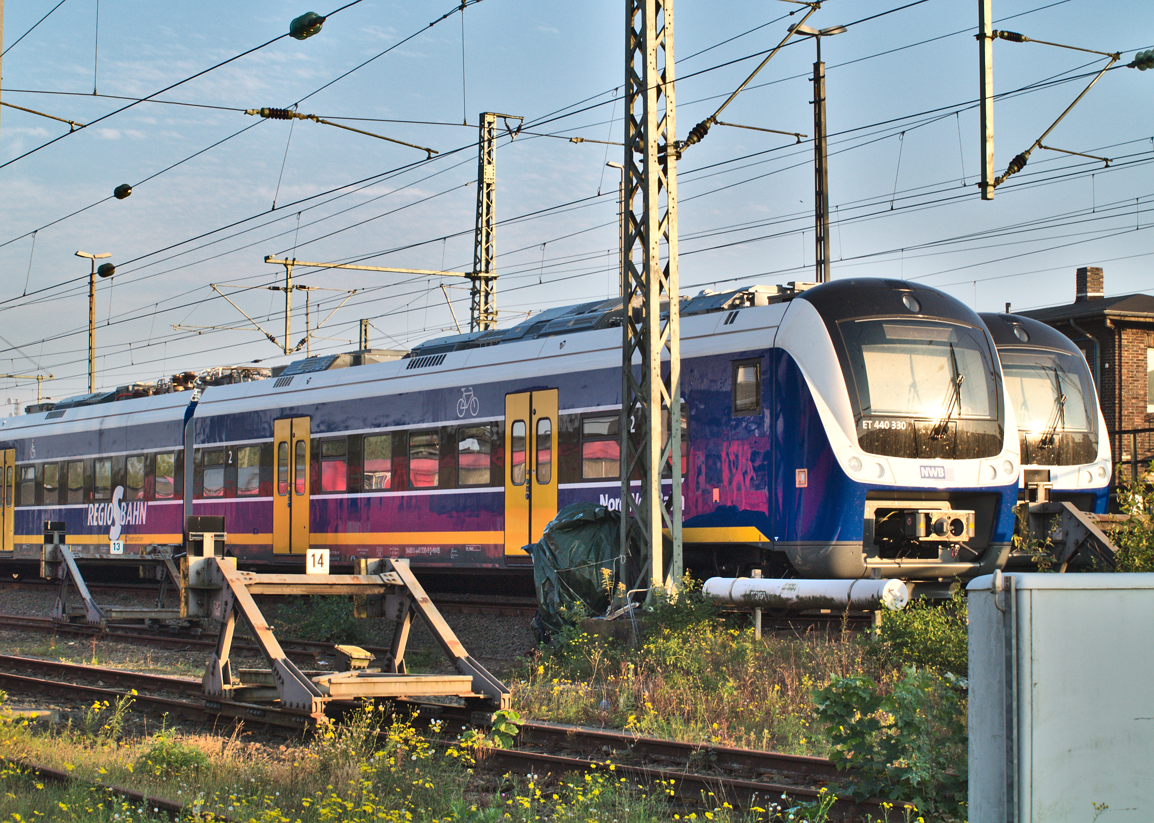 In the fall of 2010, rail operator NordWestBahn is testing its brand-new Alstom Coradia Continental (ET 440) between Bremen and Oldenburg. Here two such EMUs (ET 440 330 and 833) are parked on sidings in Oldenburg Central Station. In December 2010, this rolling stock will start running on the Regio-S-Bahn network of Bremen.